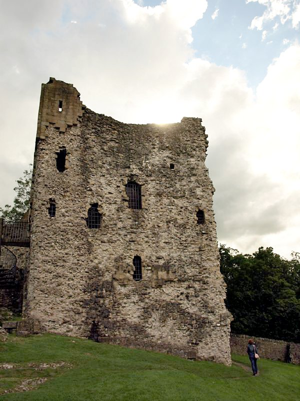 Peveril Castle's keep. The original facing is still visible in the top-left hand corner and gives an idea of how the keeps exterior would have looked instead of its current rough appearance.